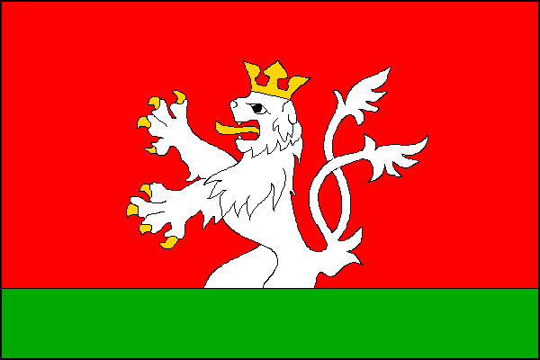 Municipal flag of Lipník nad Bečvou town, ˇPřerov District, Czech Republic.